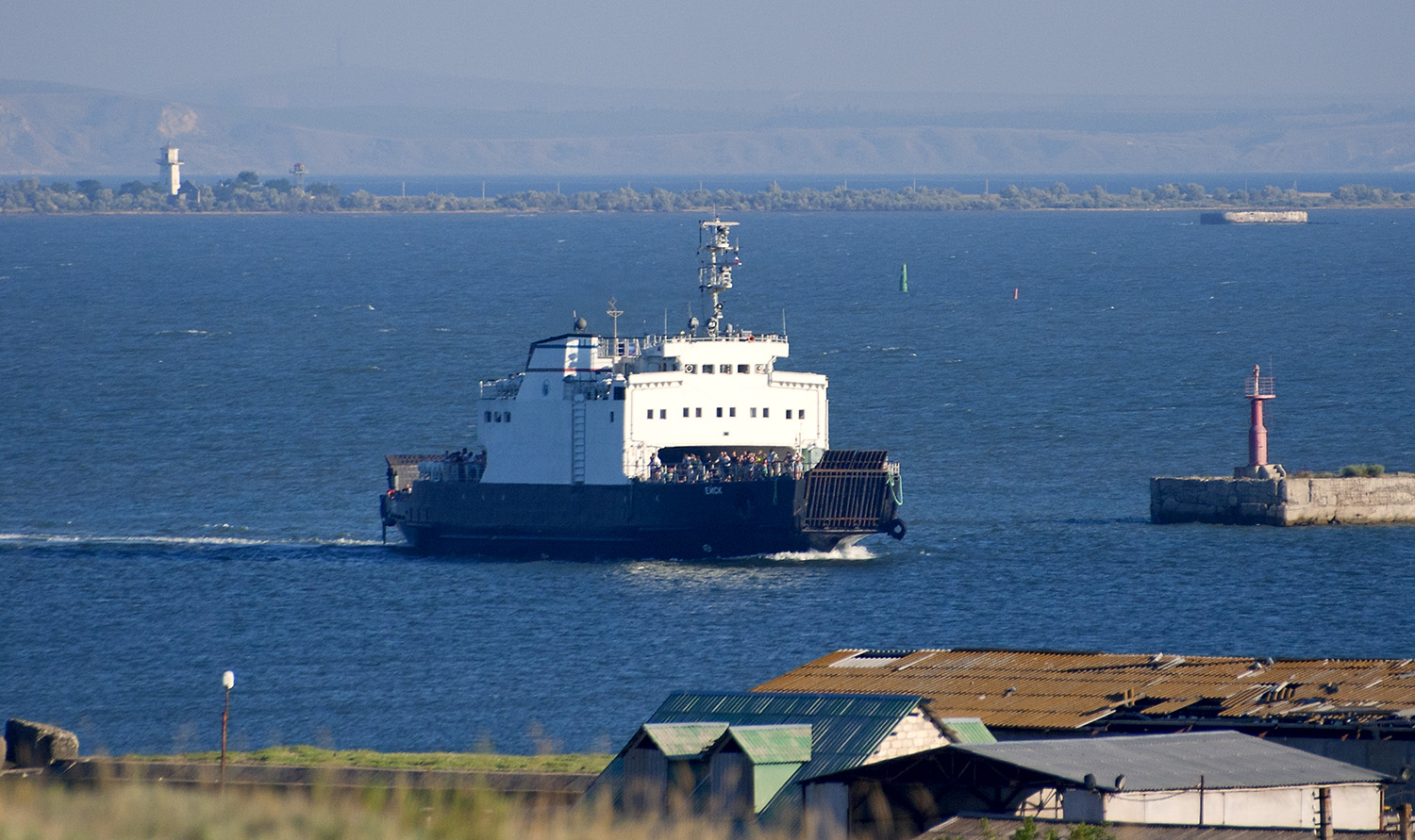 "Yeysk" car ferry, in service on Kerch ferry line